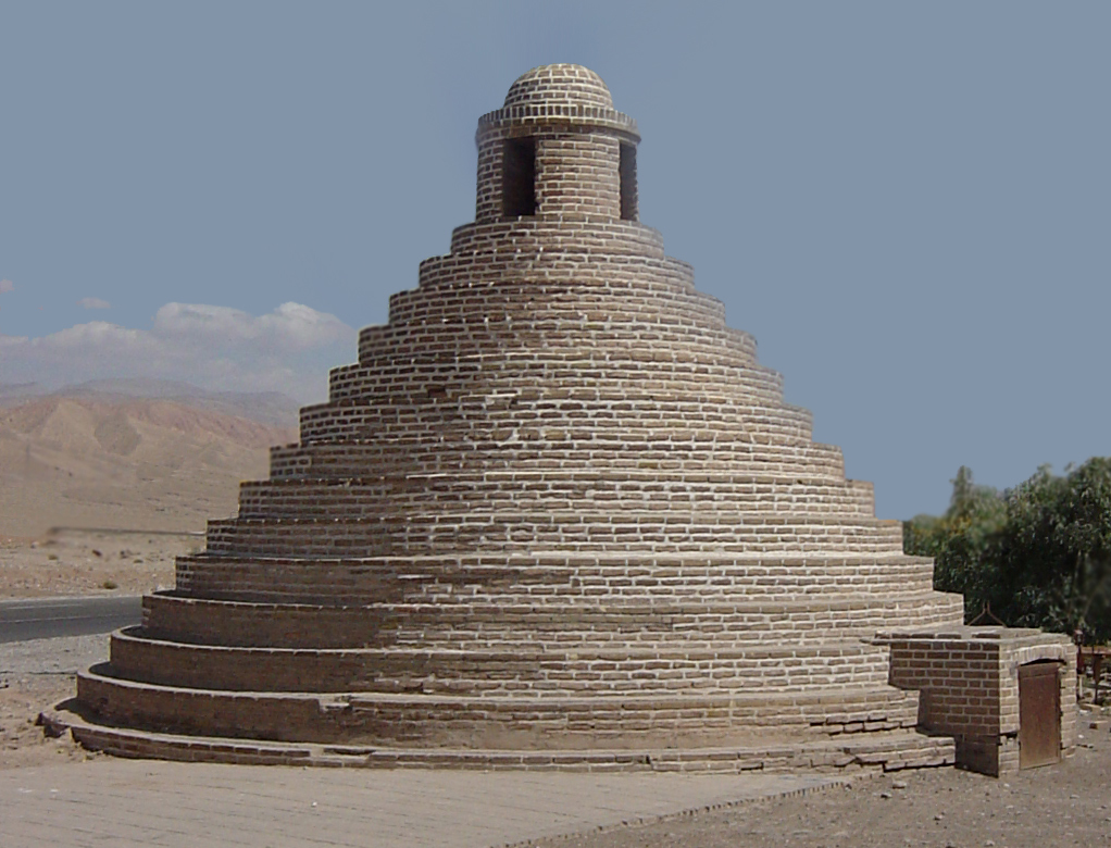 Old Reservoir in Aradan - Garmsar